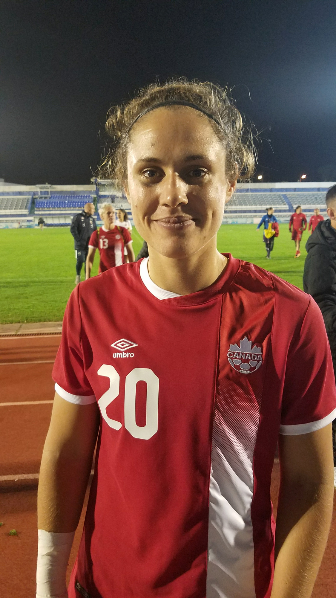 Shannon Woeller after a friendly against Norway in Marbella, Spain on November 28, 2017.